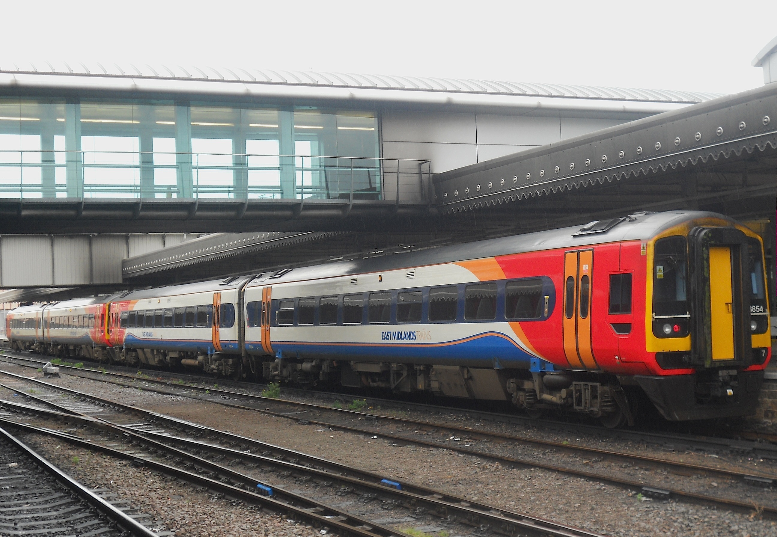 A pair of East Midlands Trains Class 158, led by No. 158854, at Sheffield